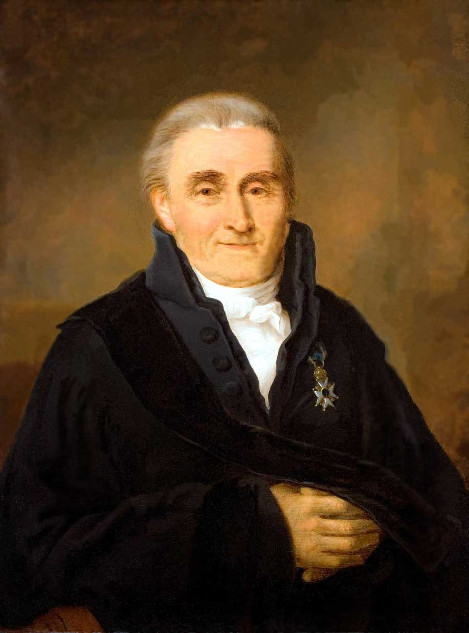 Nicolaas Smallenburg (1761-1836) Dutch jurist